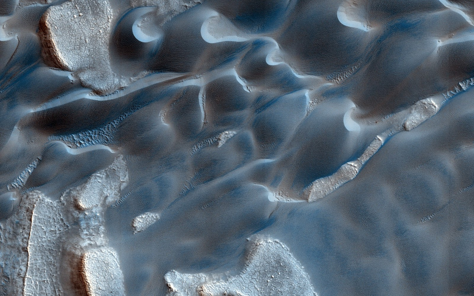 Formative down-slope winds descending on Mars’ North Polar ice cap likely play an important role in transporting sediment from the base of the ice cap into the dune fields that sit beyond the ice cap. The deep chasm that formed on the polar cap edge is identified as an area of strong down-slope winds and has a clear connection to Mars’ largest dune field, Olympia Undae. Repeat HiRISE images from this chasm that specifically targets the dunes, provides the basis to evaluate the sand fluxes which are associated with the dune and ripple movement in this area.